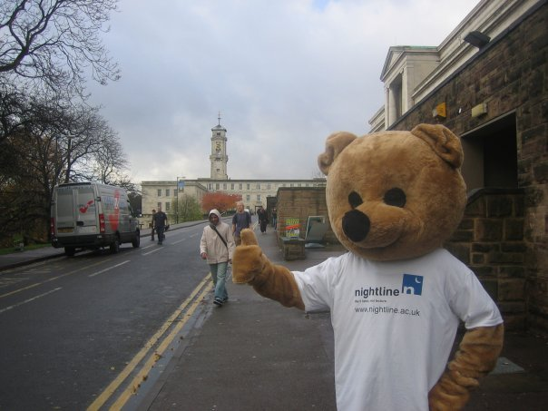 Picture of the Nightline Mascot used by the University of Nottingham Students' Union.